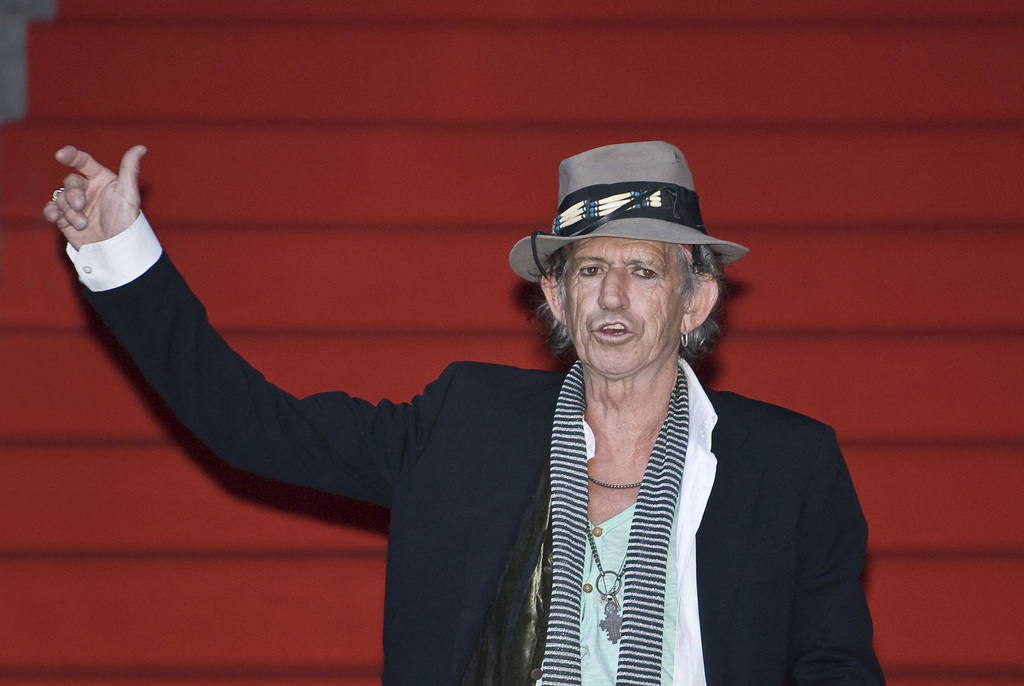 Keith Richards (Rolling Stones), leaving the press conference of "Shine A Light" at the Hyatt Hotel, Potsdamer Platz, Berlin